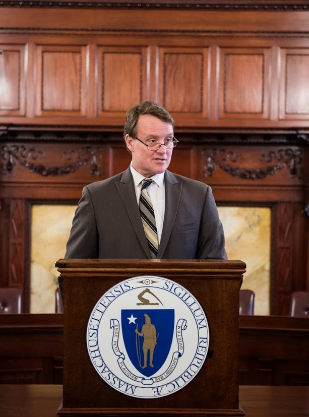 Senator Moore